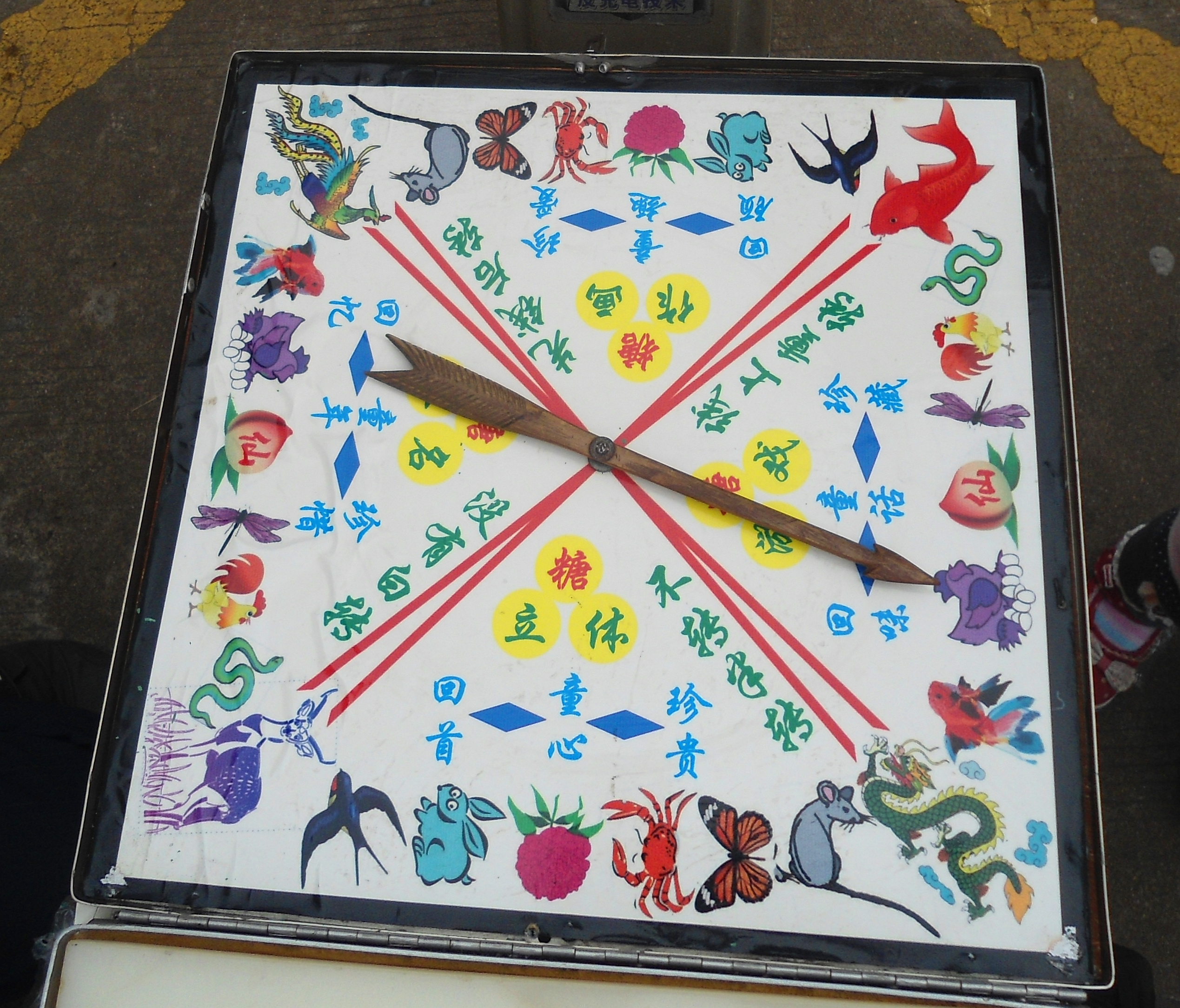 Chinese sugar painting at Golden Bull Mountain Ridge Park, Haikou, Hainan Province, China